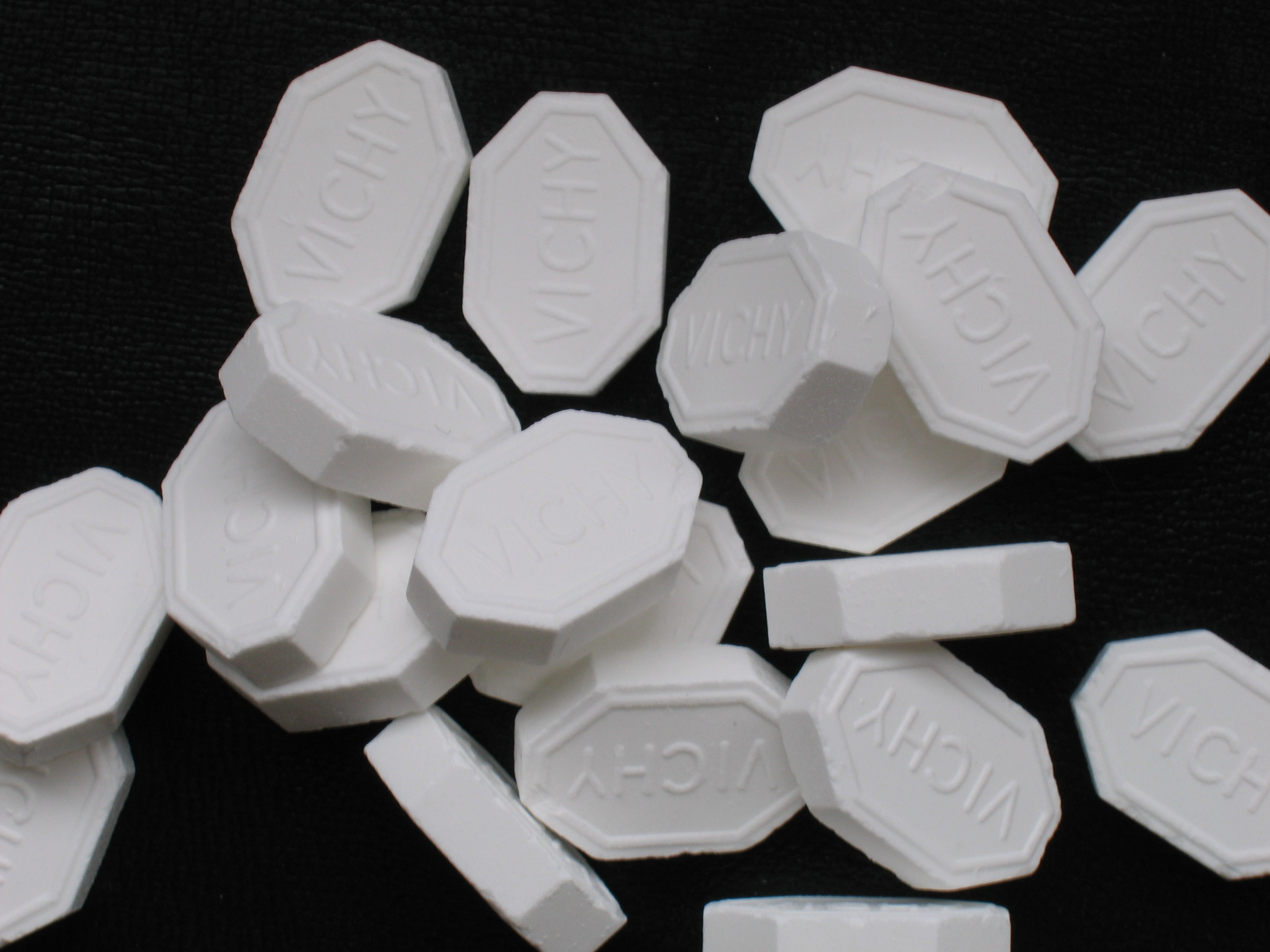 Vichy Pastilles or pastilles of Vichy.